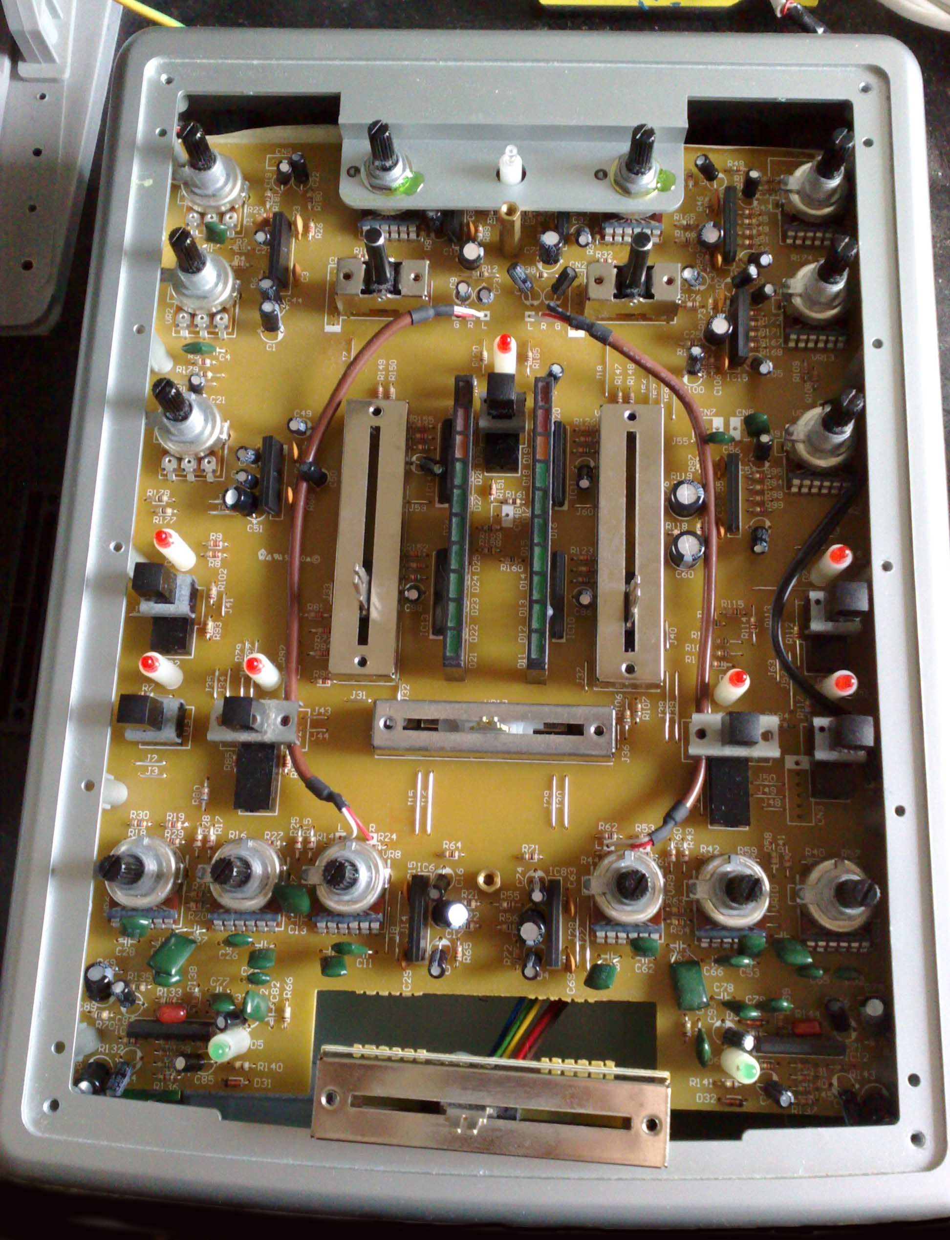 A Omnitronic DJ-55 mixer without cover and lever